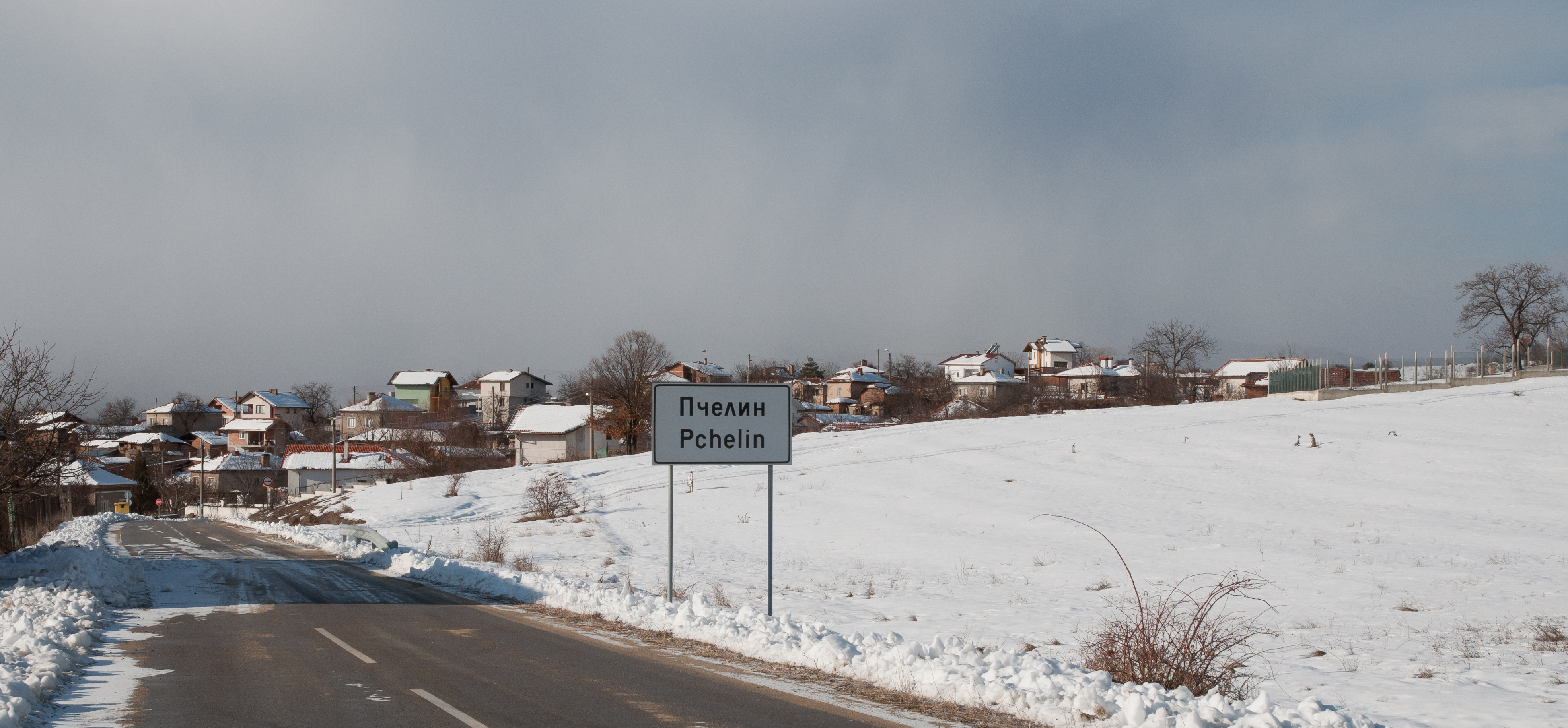 Pchelin village, Sofia Province, Bulgaria.